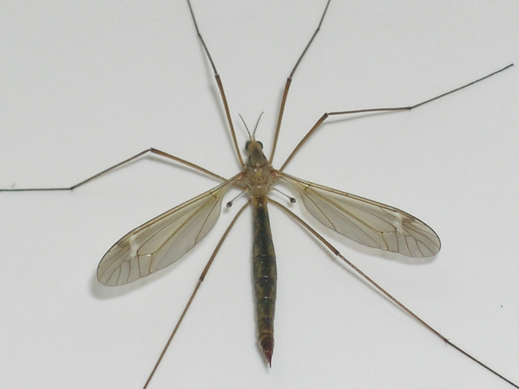 Crane fly with halteres clearly visible under the wings. This is a photograph I took myself some time ago. --Pinzo 21:48, 19 June 2006 (UTC)